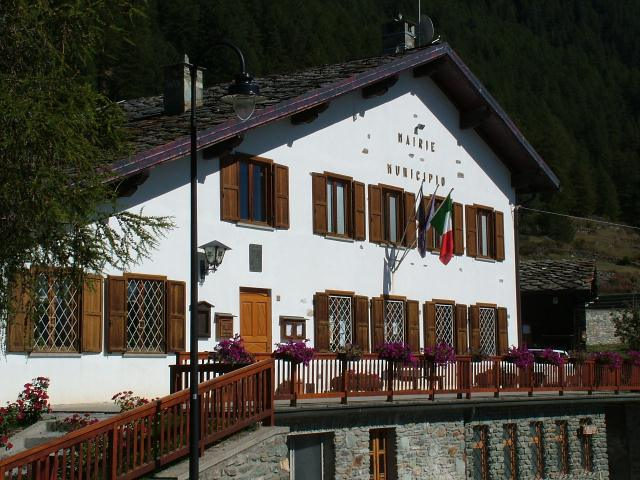 City hall of La Magdeleine (Aosta Valley, Italy)